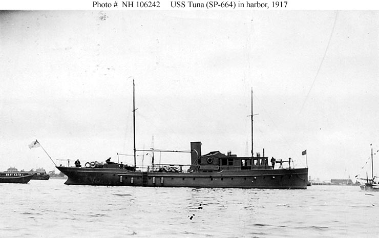 The United States Navy patrol vessel in harbor in the northeastern United States during World War I.